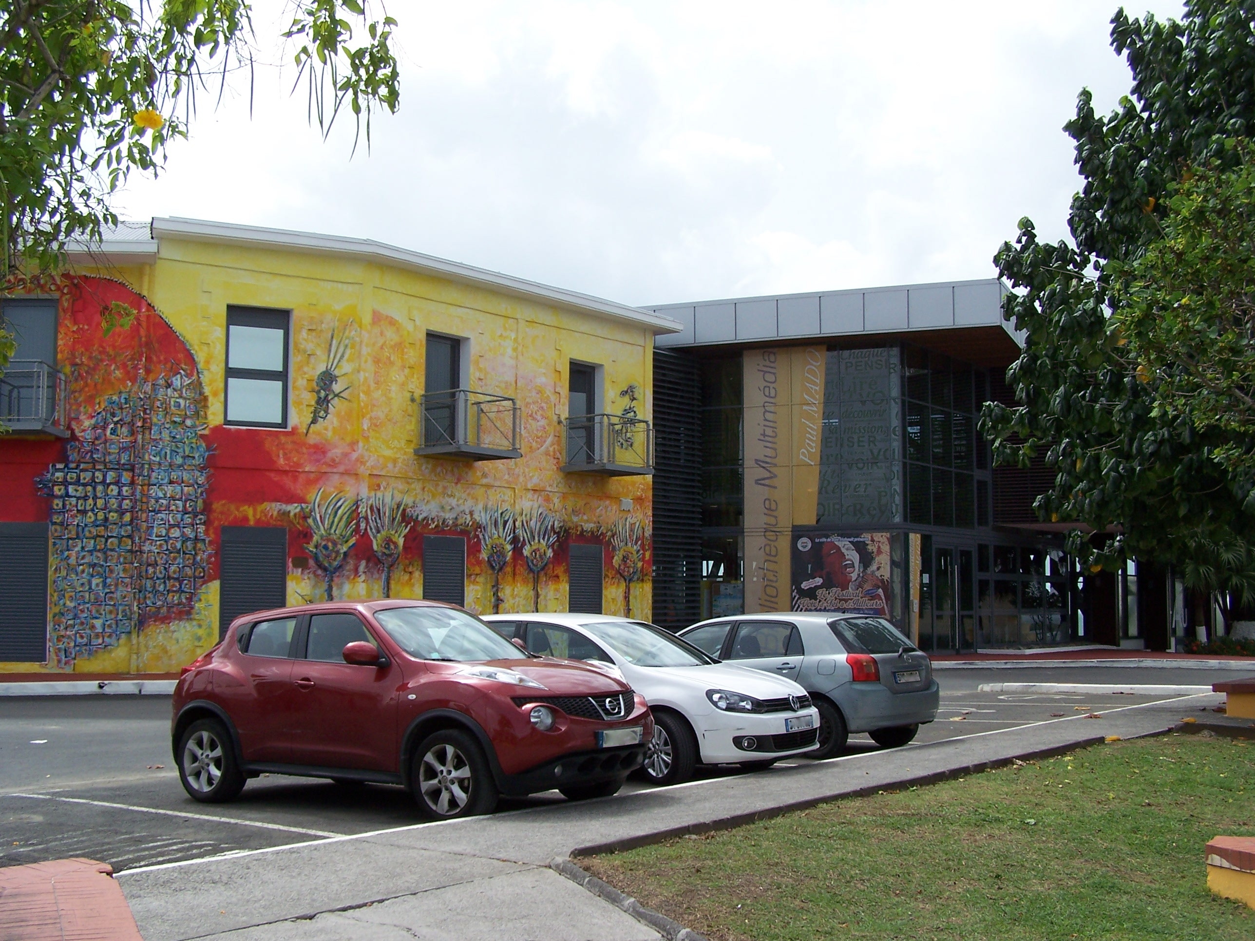 La médiathèque de Baie-Mahault, Guadeloupe